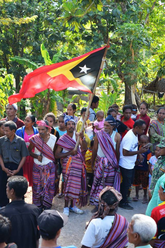 Monument dedicated to the victims of 1985 Tchaivatcha Tragedy, Souro Suco, Lautém District, East Timor. Inauguration 2015-7-21